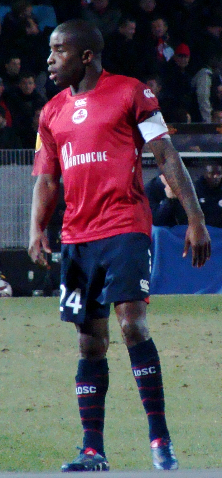 Mavuba vs Liverpool